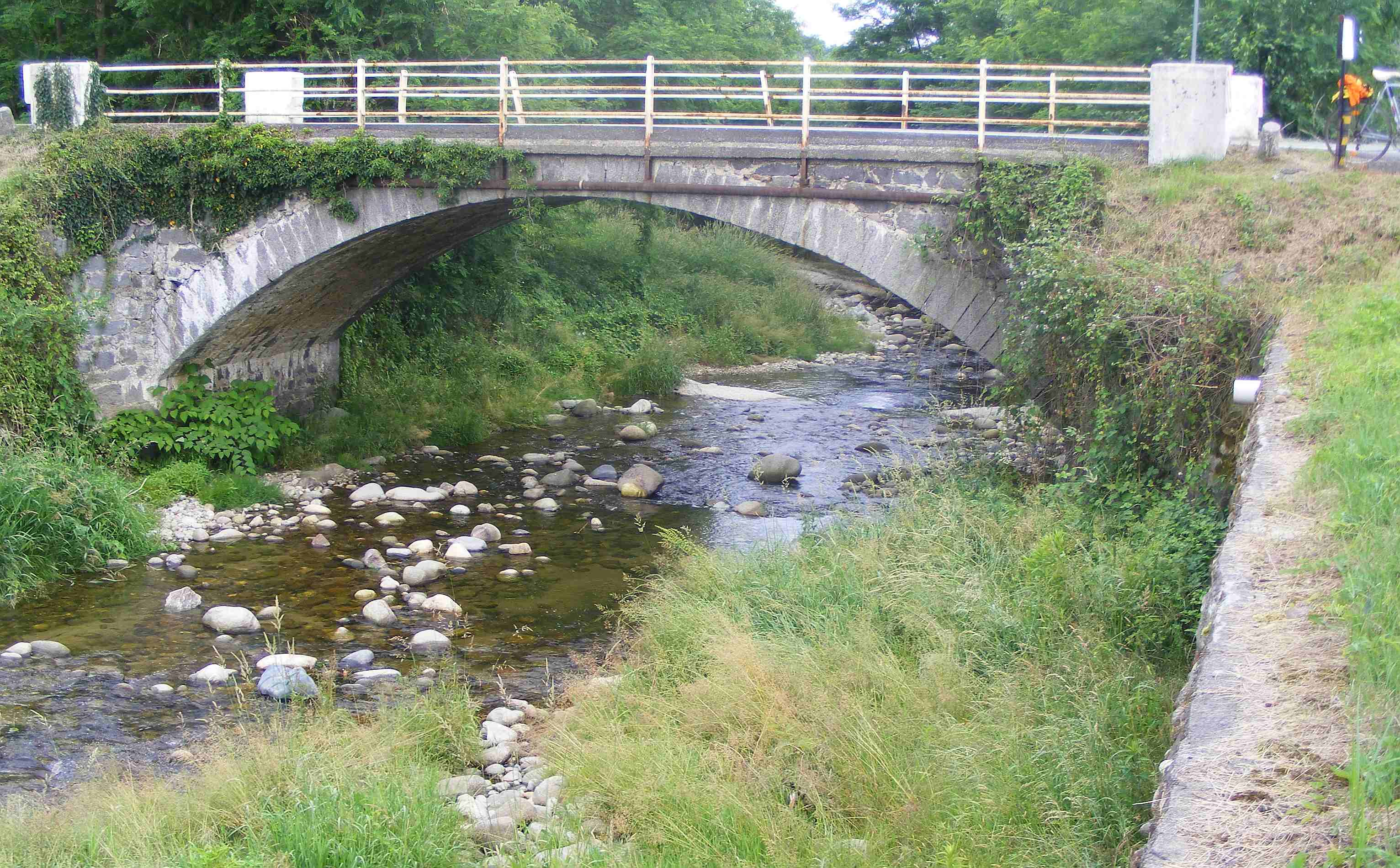 Bridge on the Chiebbia (Valdengo, BI, Italy)